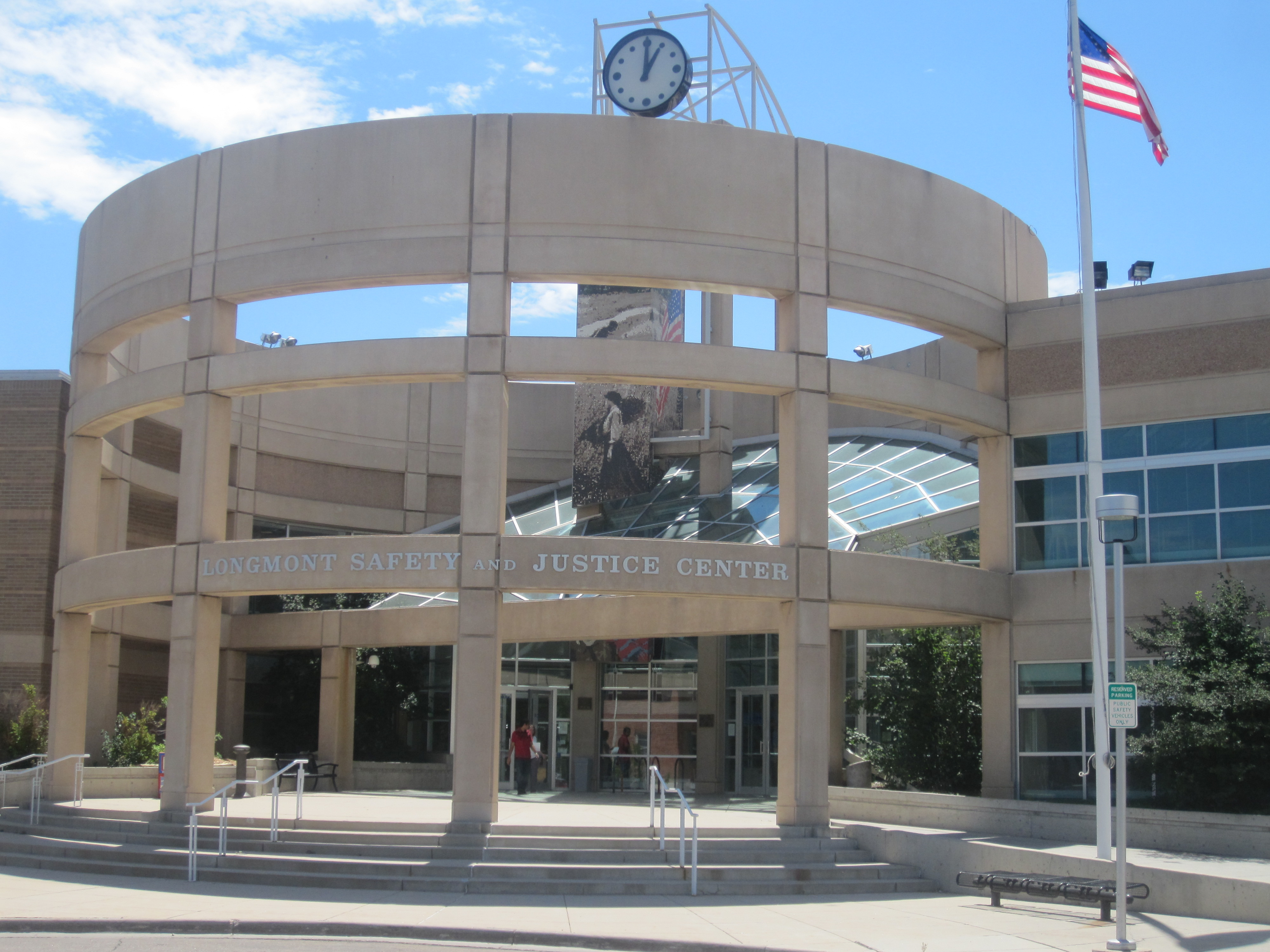 I took photo with Canon camera in Longmont, CO.